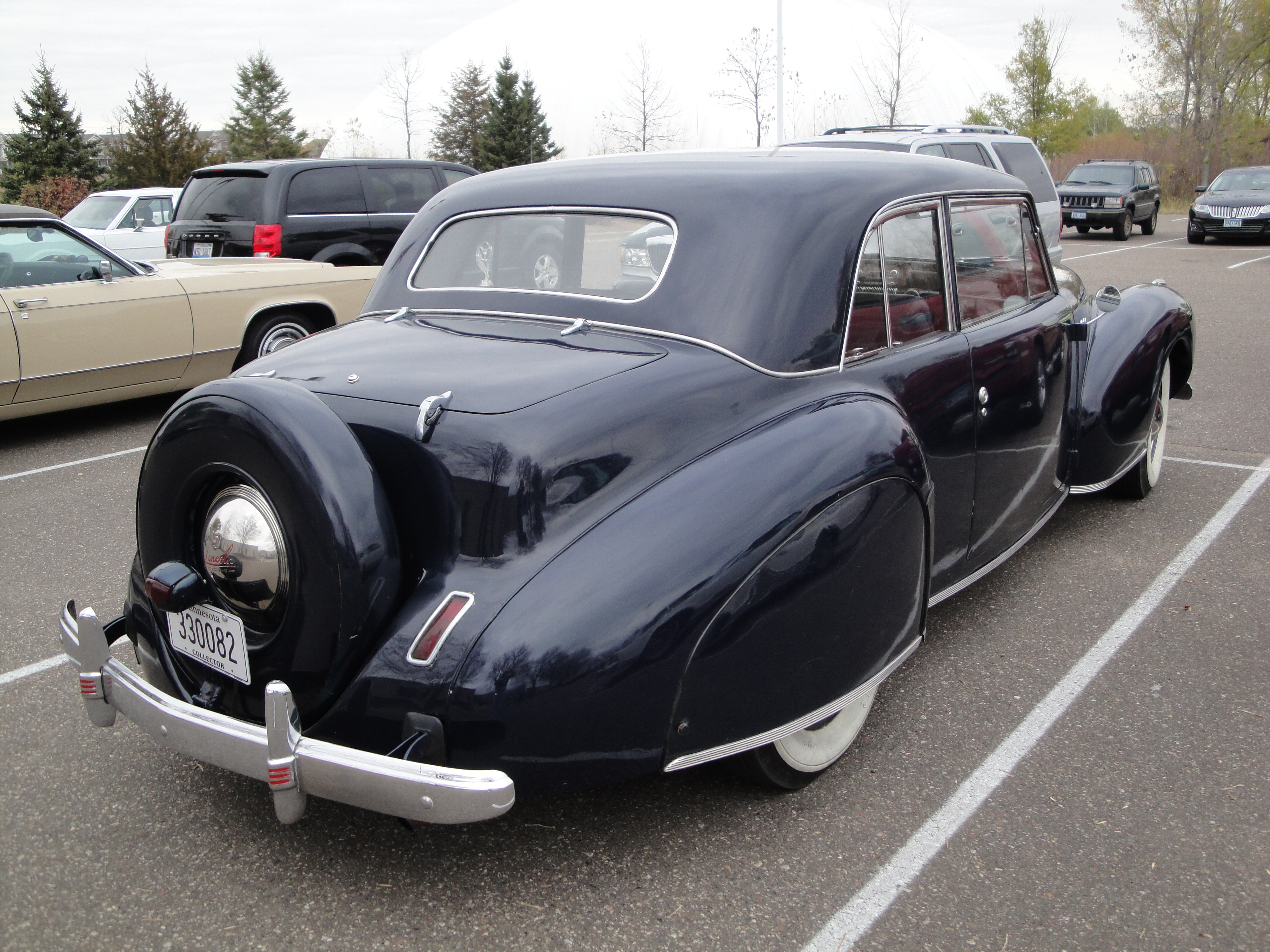 Lincoln Car Club meeting, October 2011